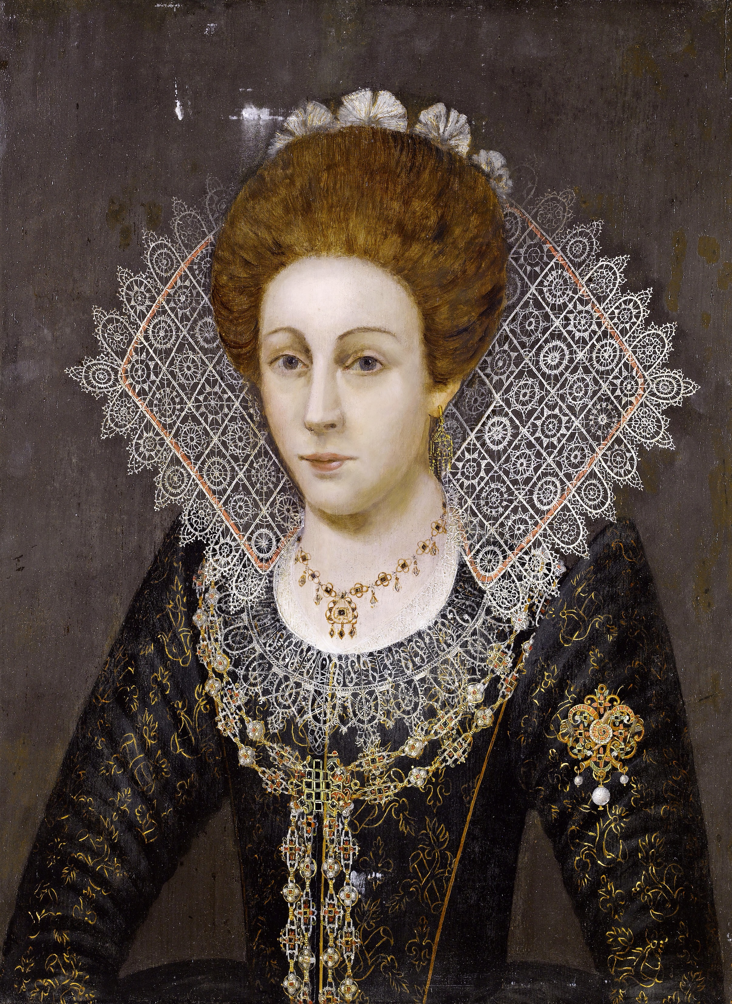 Portrait of a lady in a black dress with a lace collar.